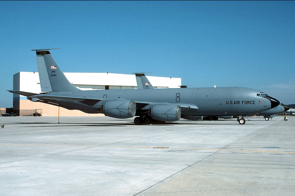 Mississippi Air National Guard 153d Air Refueling Squadron KC-135R 59-1446, Key Field Air National Guard Base.